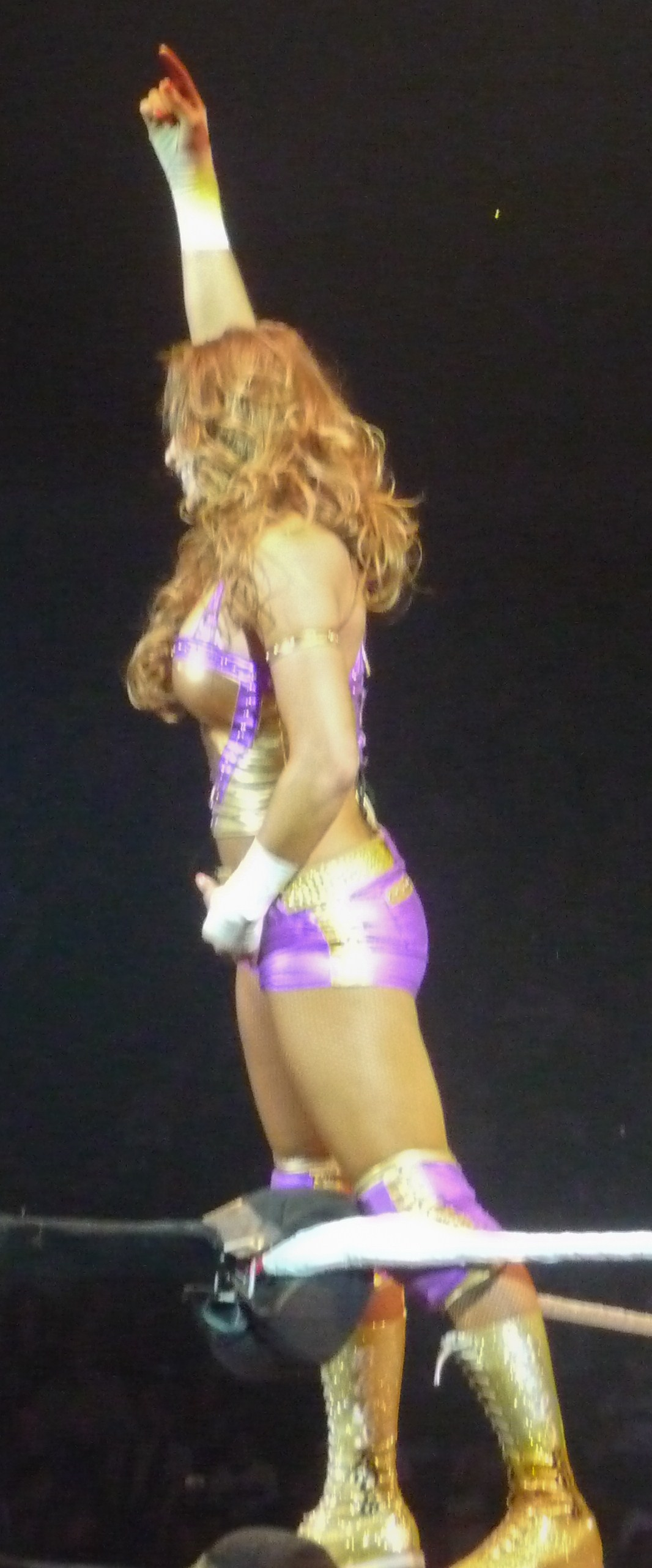 Torres at a live Raw event in 2011